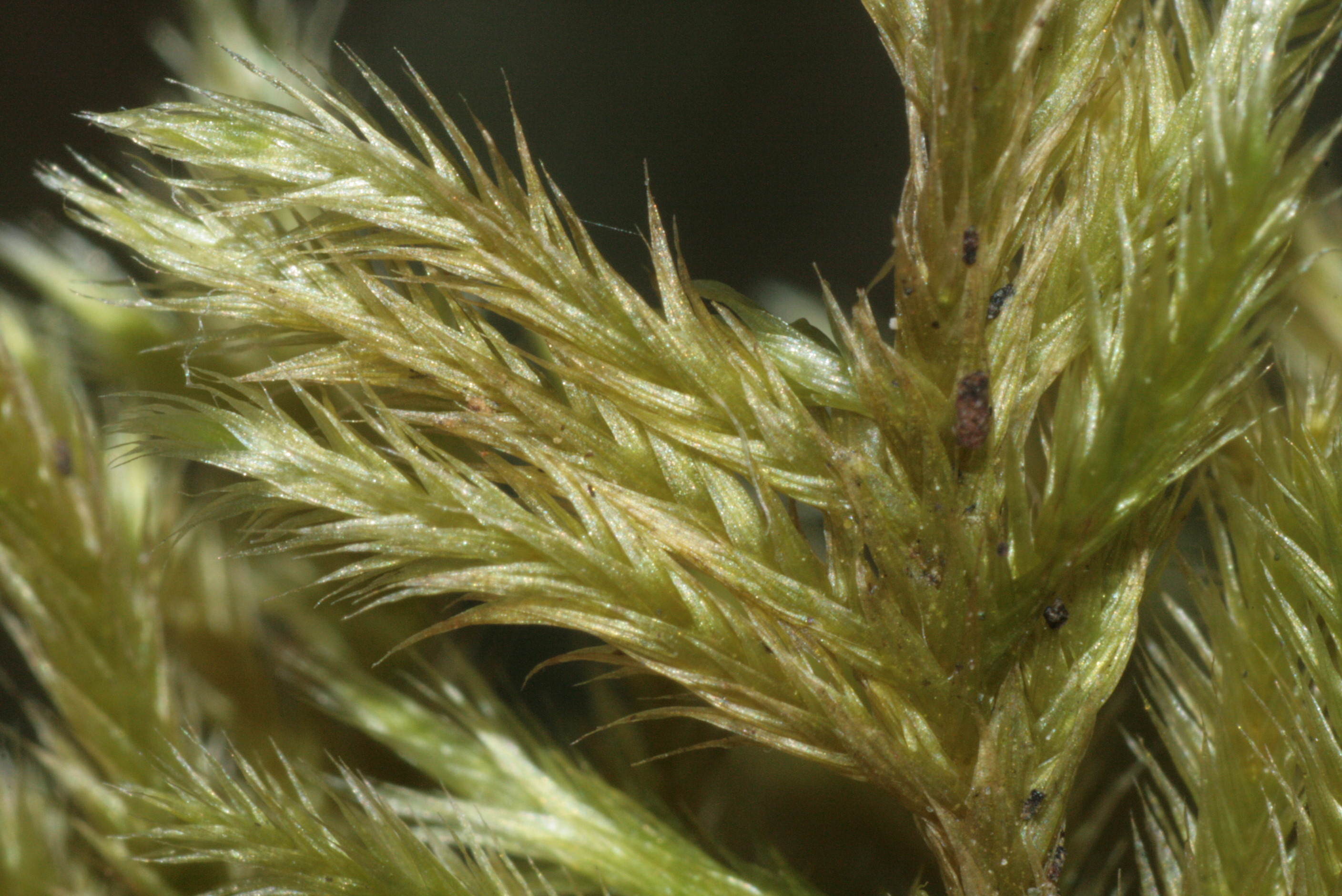 Homalothecium lutescens